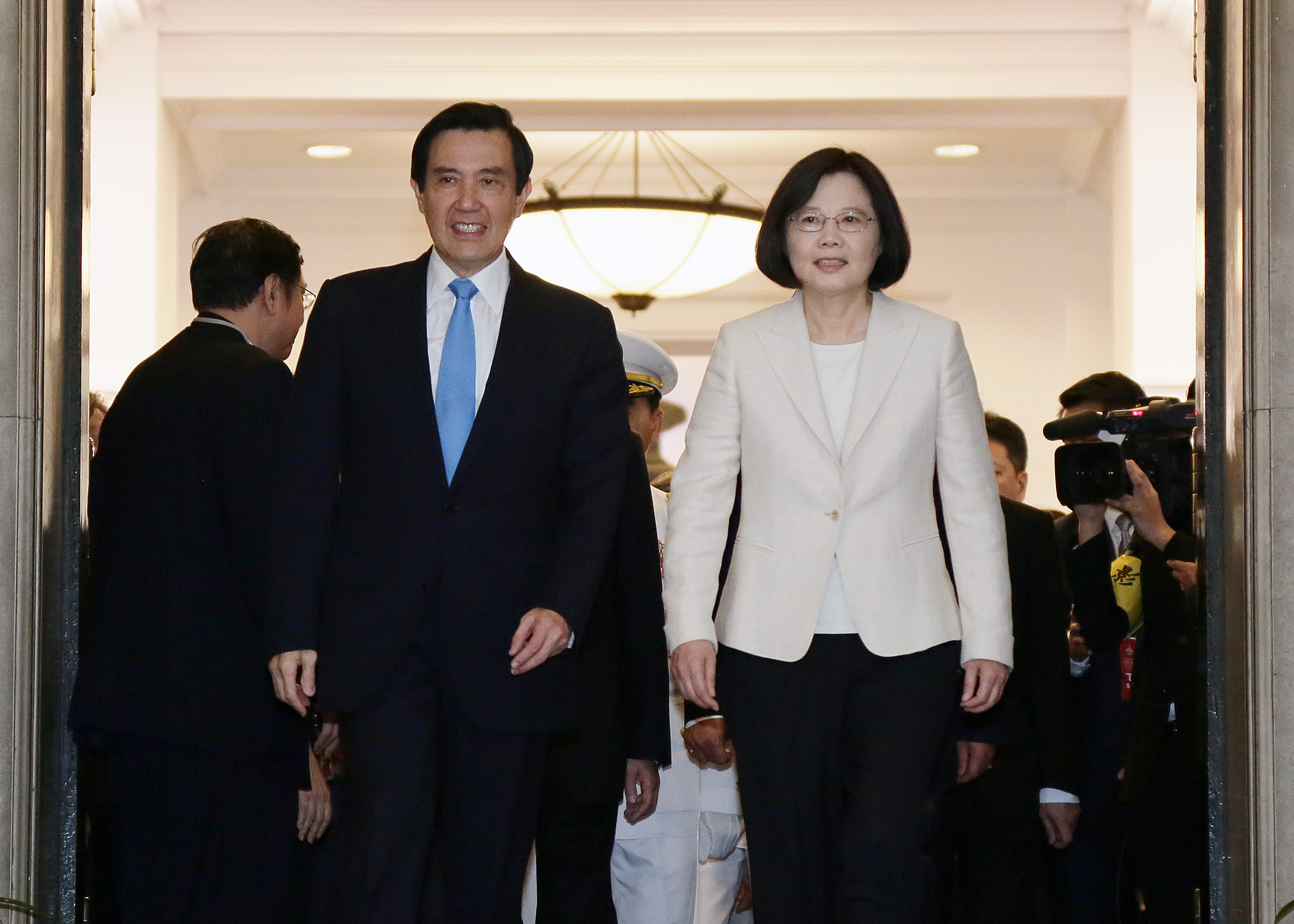 TAIWAN’s 14th-term President Tsai Ing-wen and 13th-term President Ma.